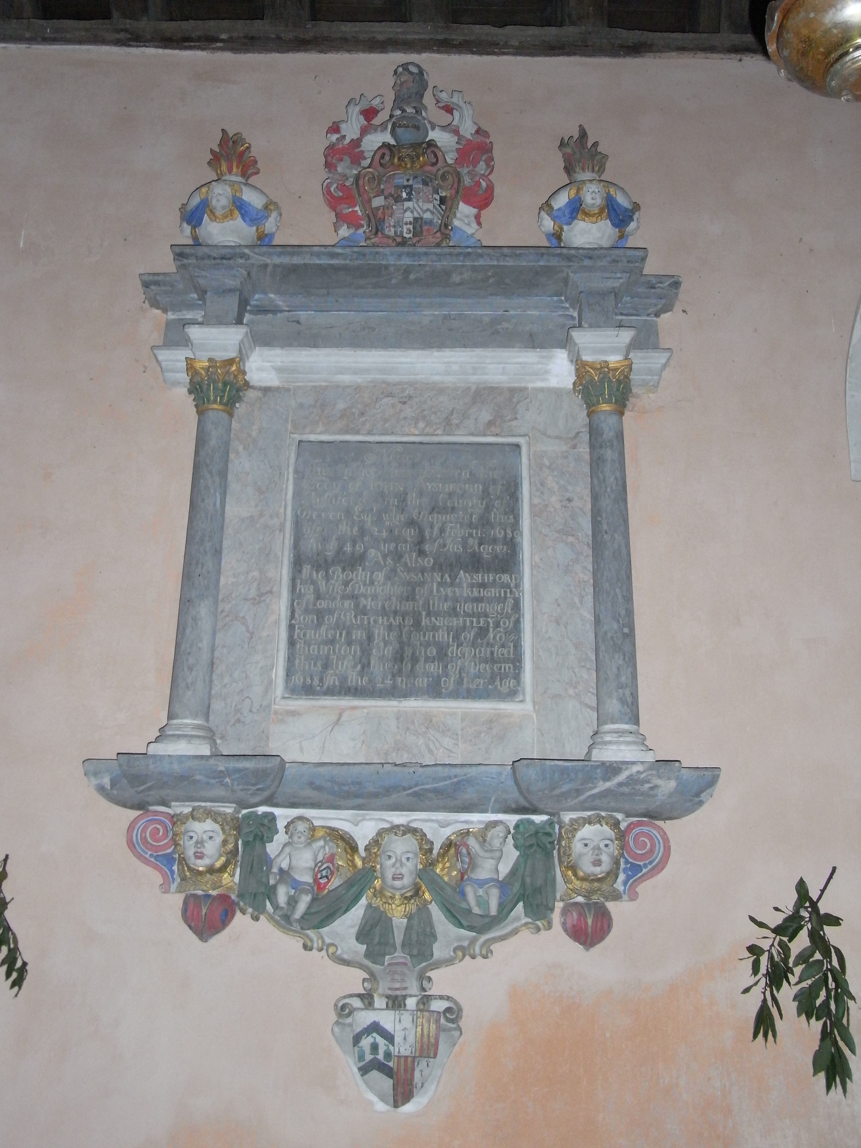 Mural monument to John Ayshford, d.1689, Ayshford Chapel, Ayshford Manor, Burlescombe parish, Devon